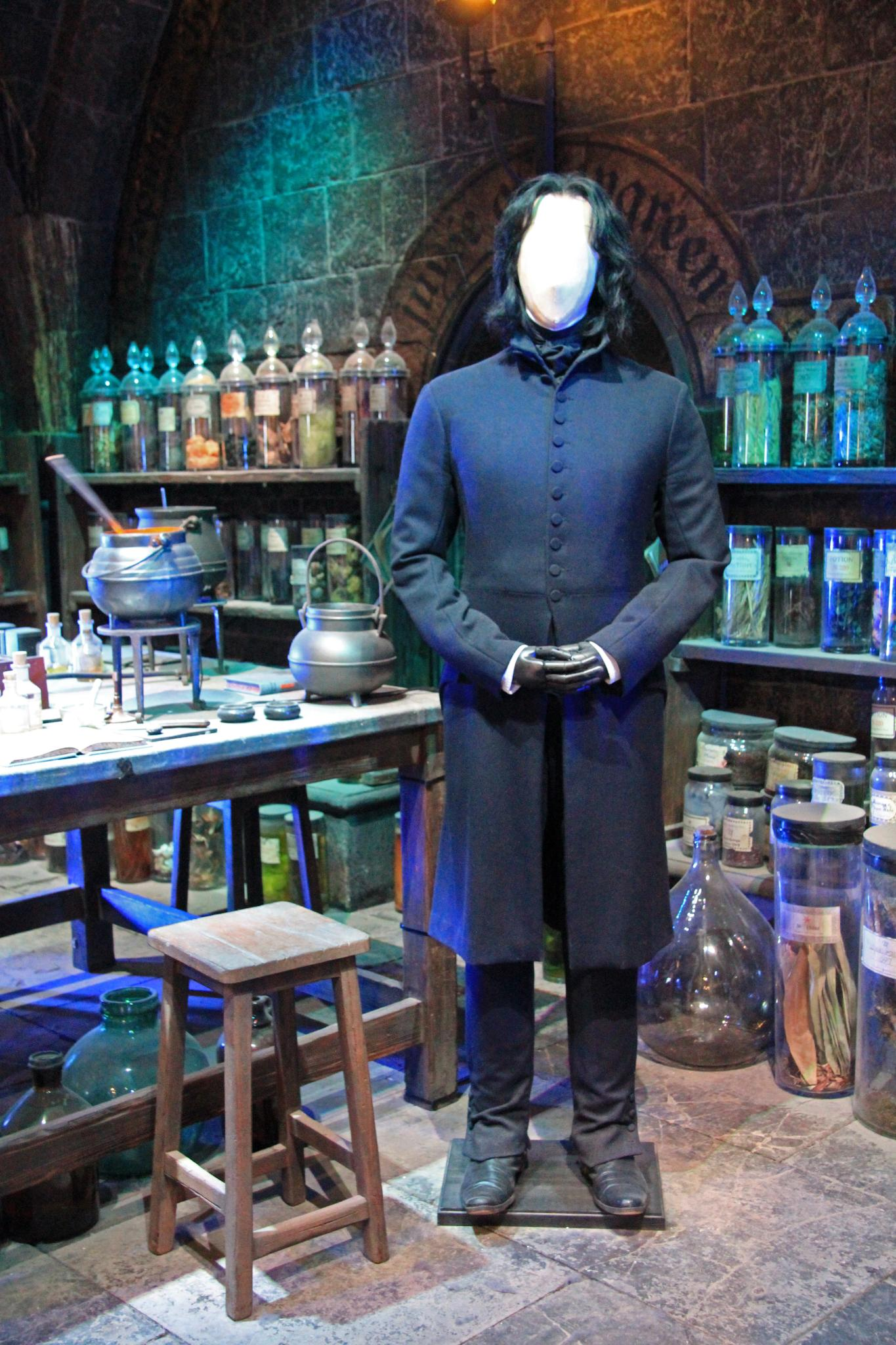 Warner Bros. Studio Tour London: The Making of Harry Potter.